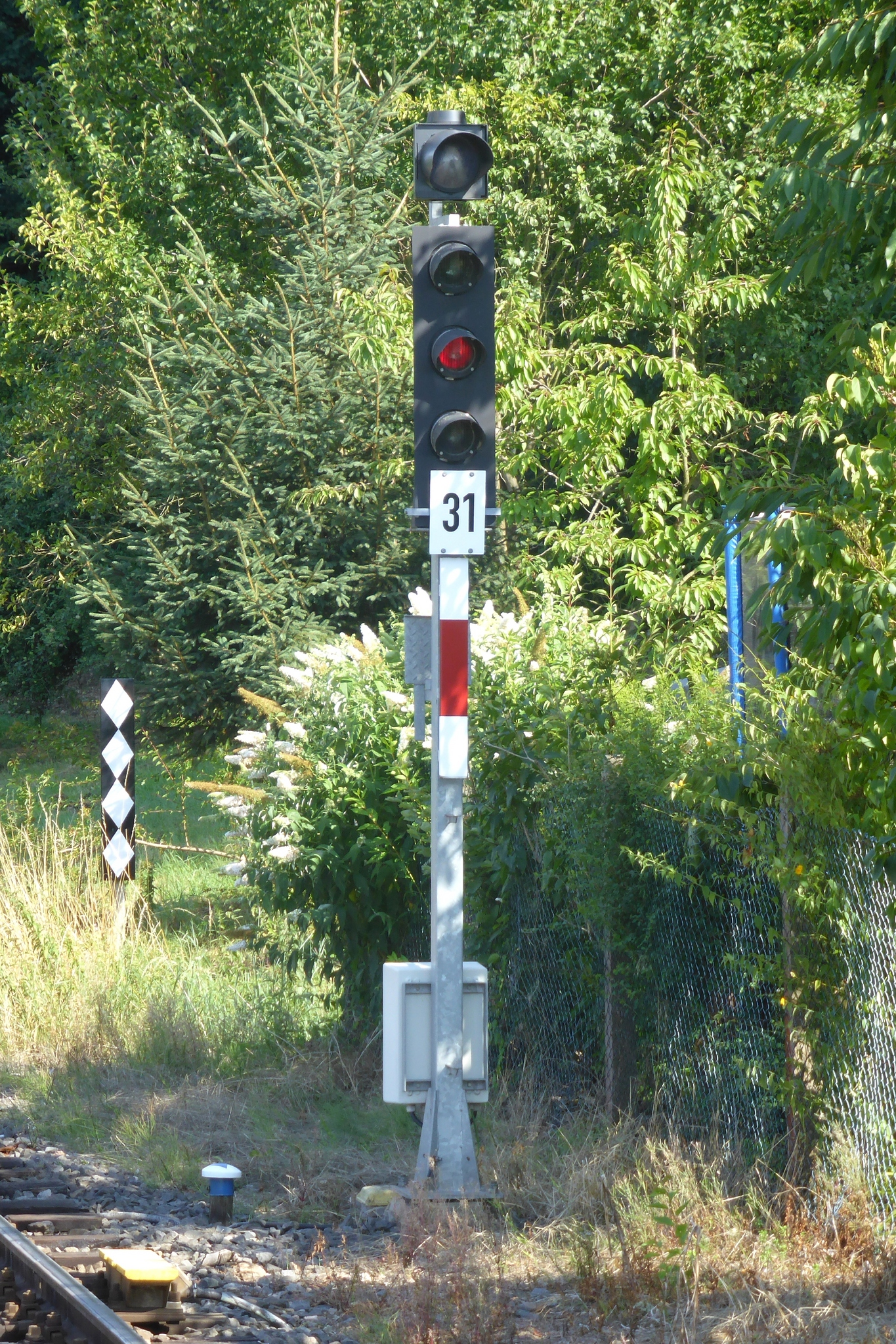 Special H/V signal type (main signal) by ADTranz. Its location is the station Alzenau-Michelbach at the Kahlgrund railway line. At the bottom left corner a PZB coil, in the background an announcing signal for railway crossings.